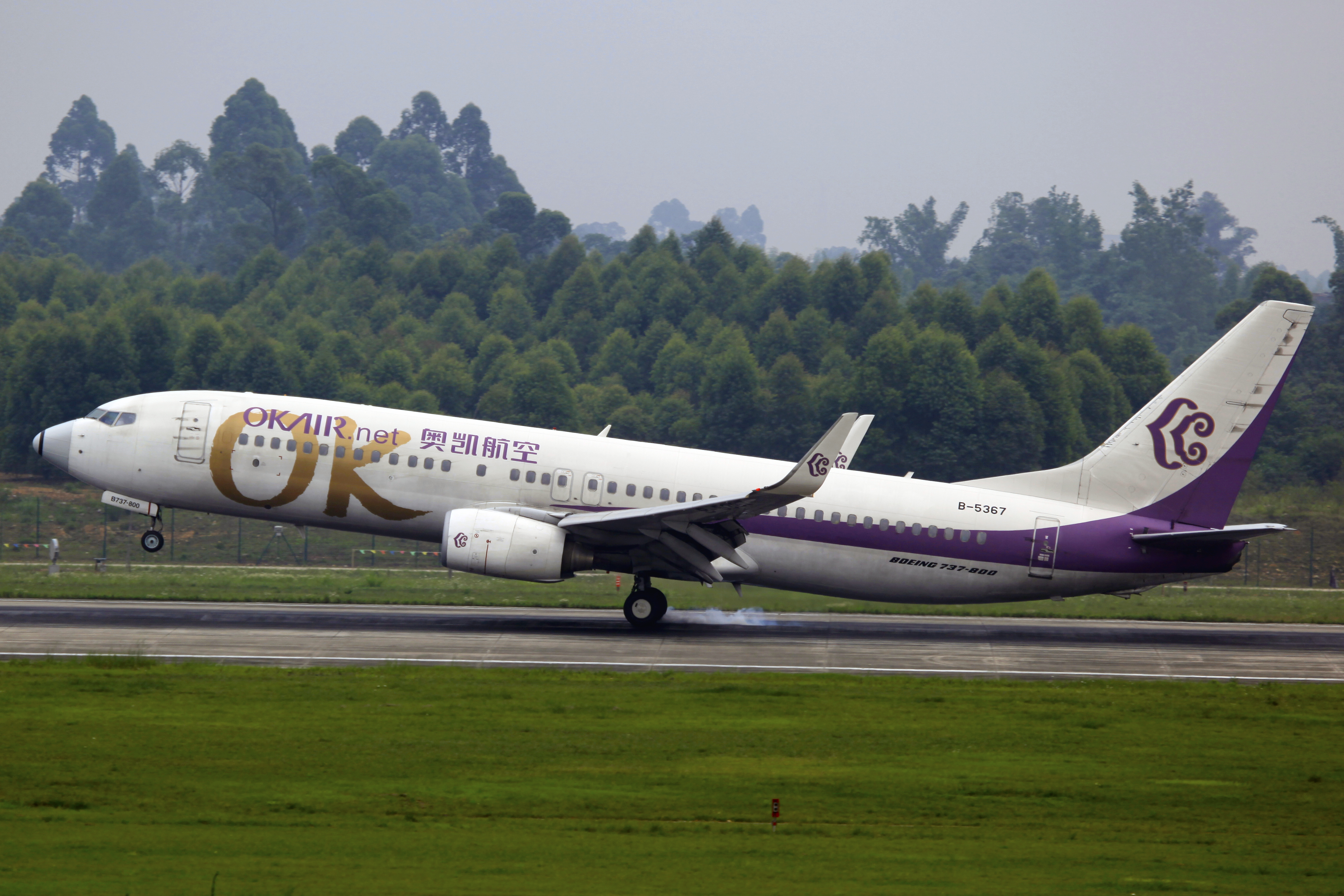 B-5367 | Okay Airways | Boeing 737-8Q8(WL) | Chengdu Shuangliu International Airport [CTU]